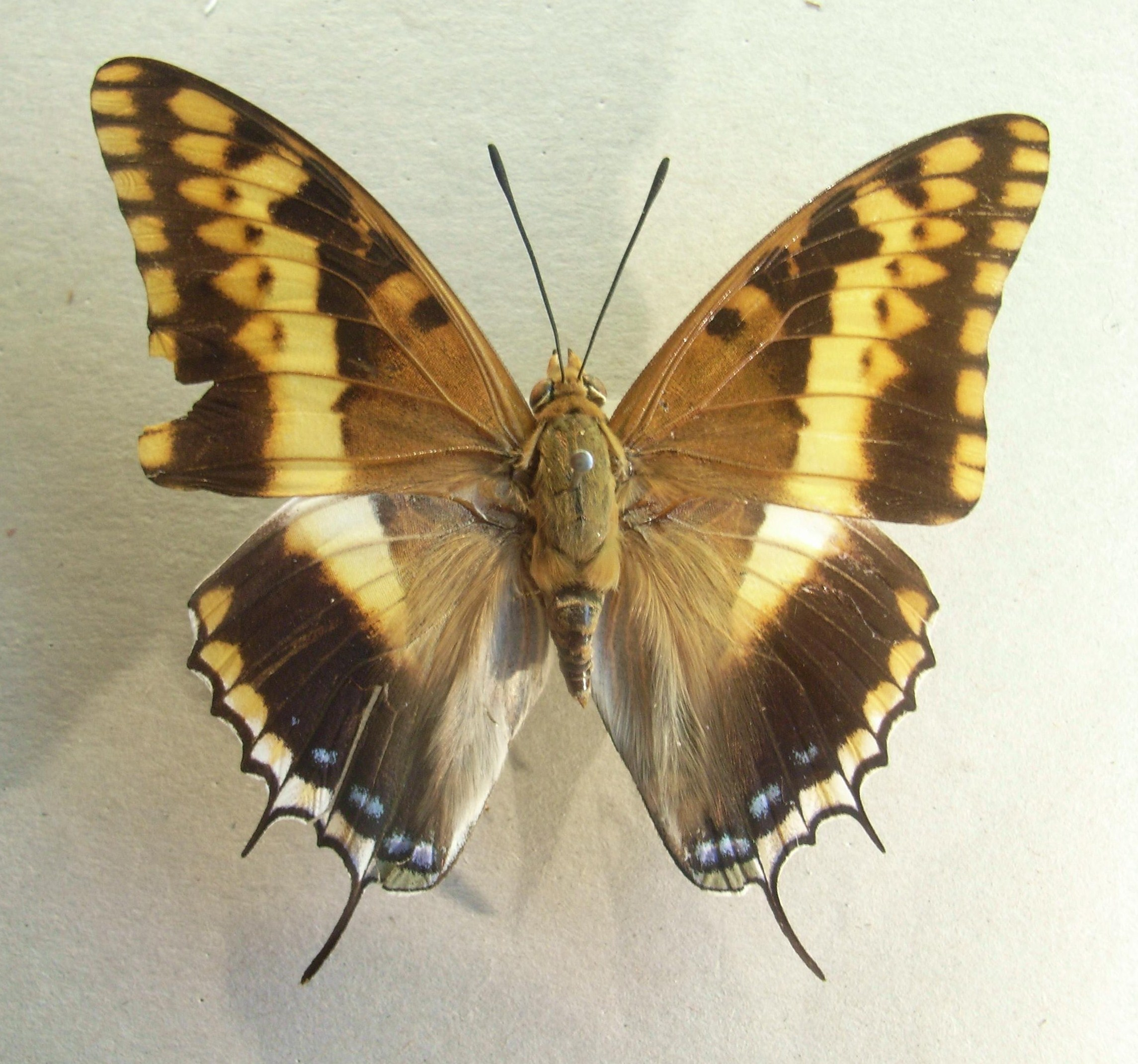 Charaxes pelias:Charaxinae:Nymphalidae